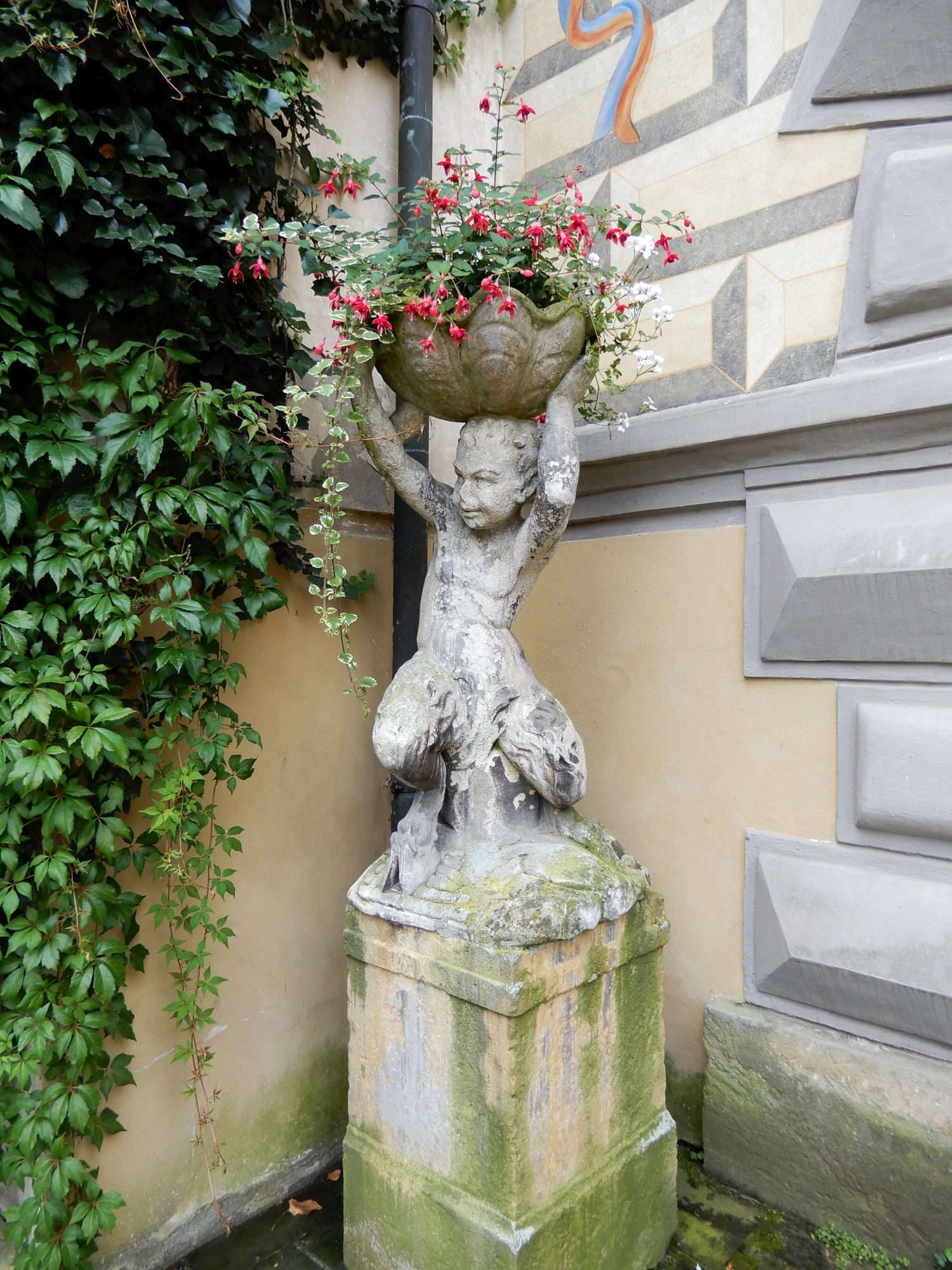 Častolovice castle, jardiniere - guéridon